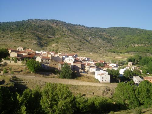 It's a image of valdemeca, a little town in Cuenca, Spain